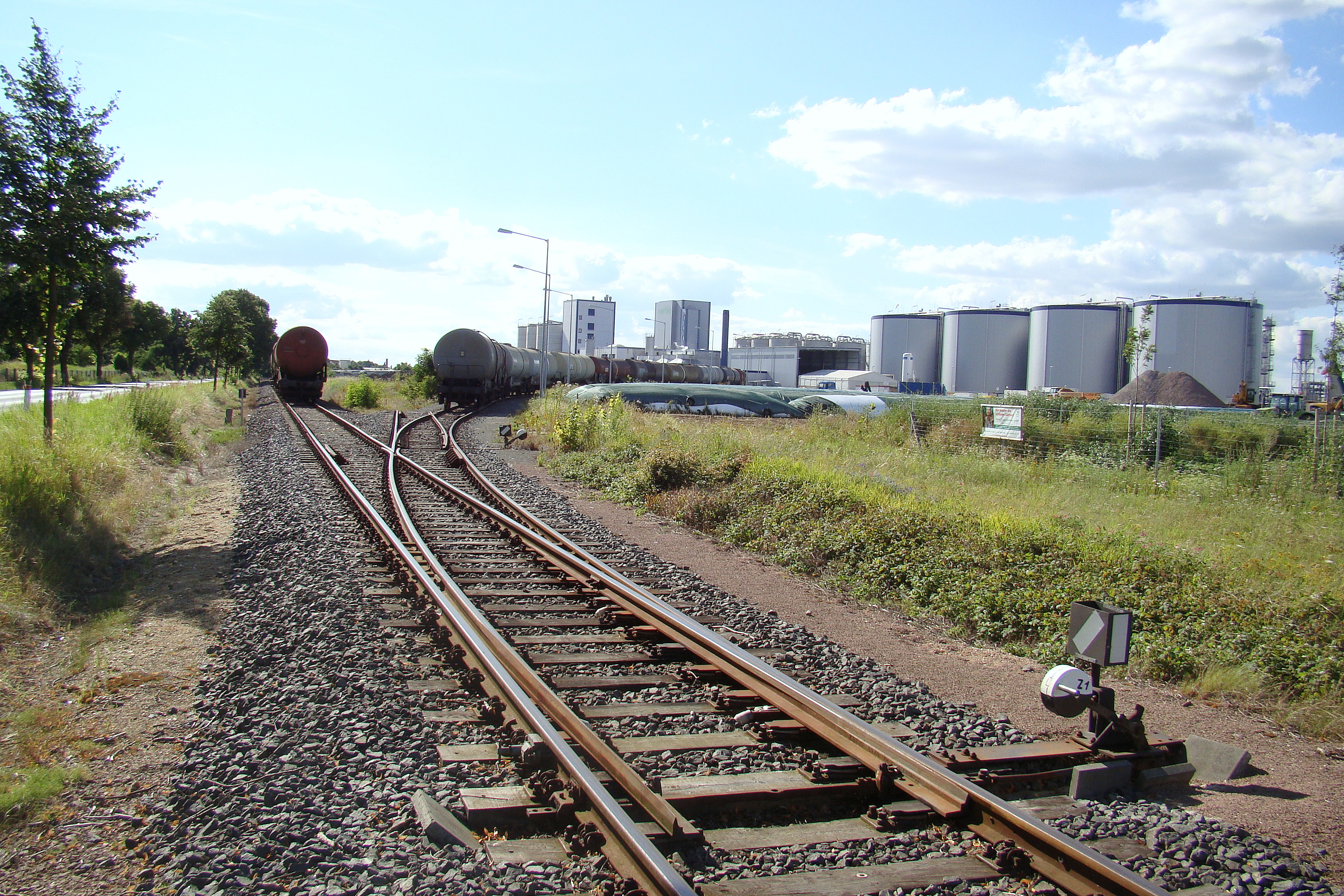 Railway line Bitterfeld-Stumsdorf near Zörbig